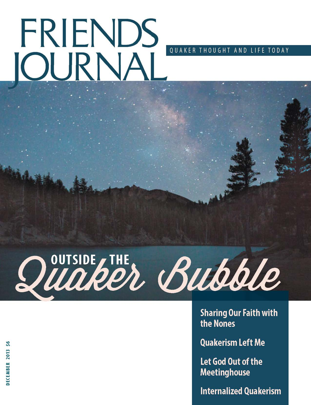 Friends Journal cover. Image by Kathy Barnhart, used by permission